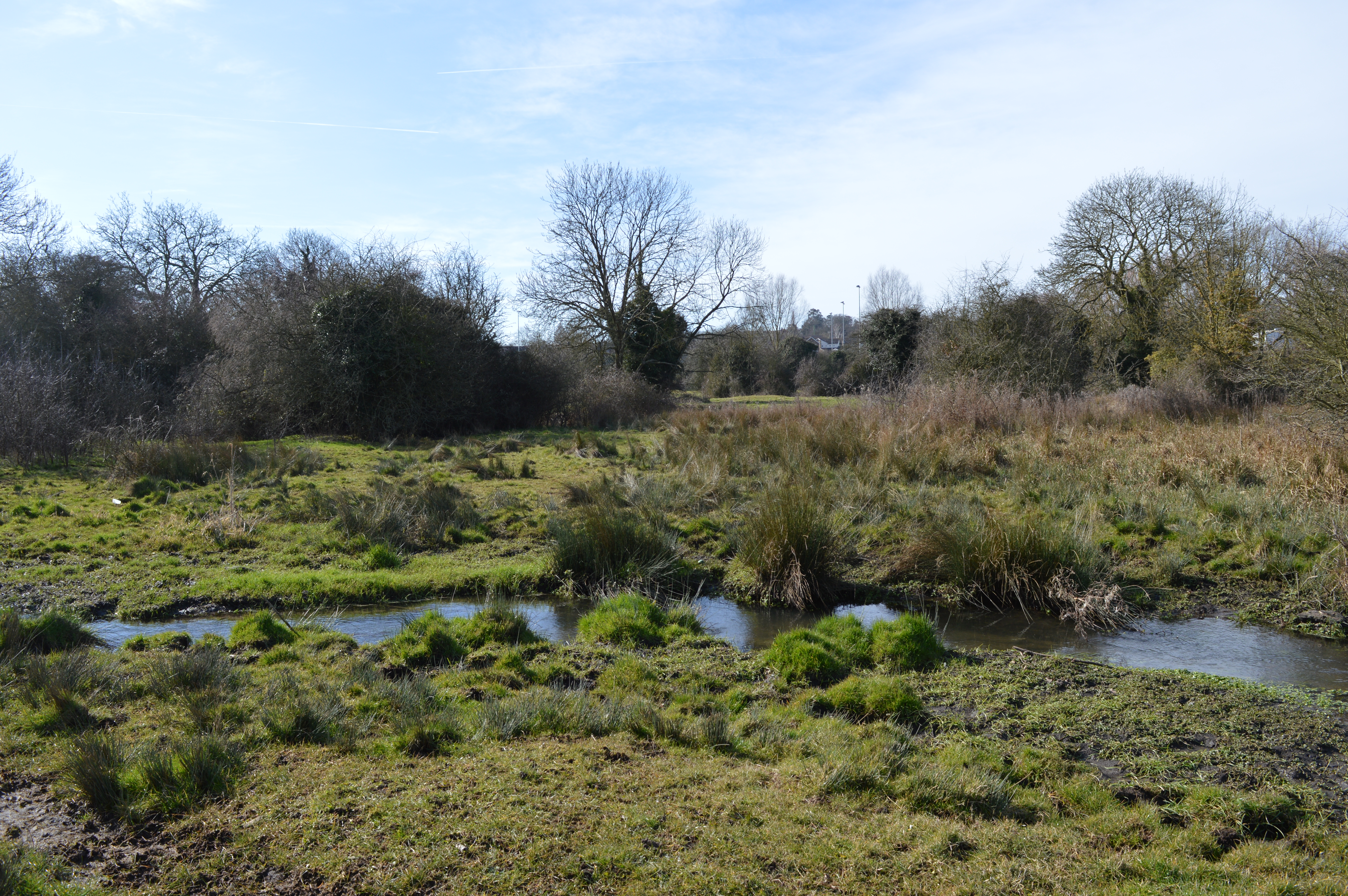 Purwell Meadows, a Local Nature Reserve in Hitchin, Hertfordshire